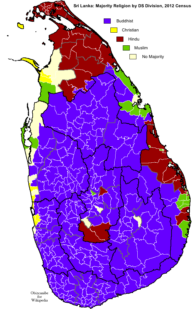 Map of Sri Lanka showing majority religion by DS Division according 2012 census.